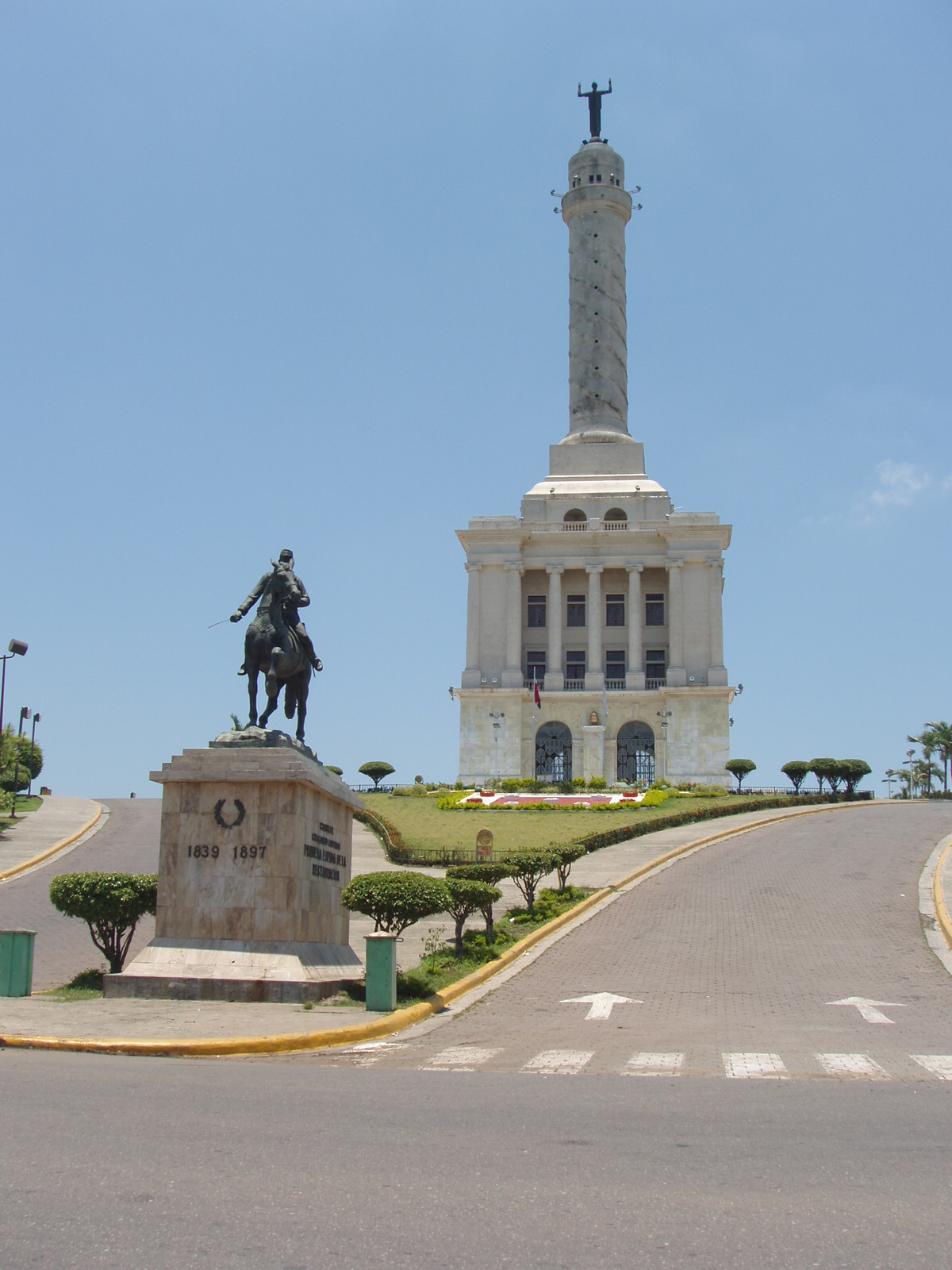 Monument to the Heroes of the Restoration in Santiago, Dominican Republic